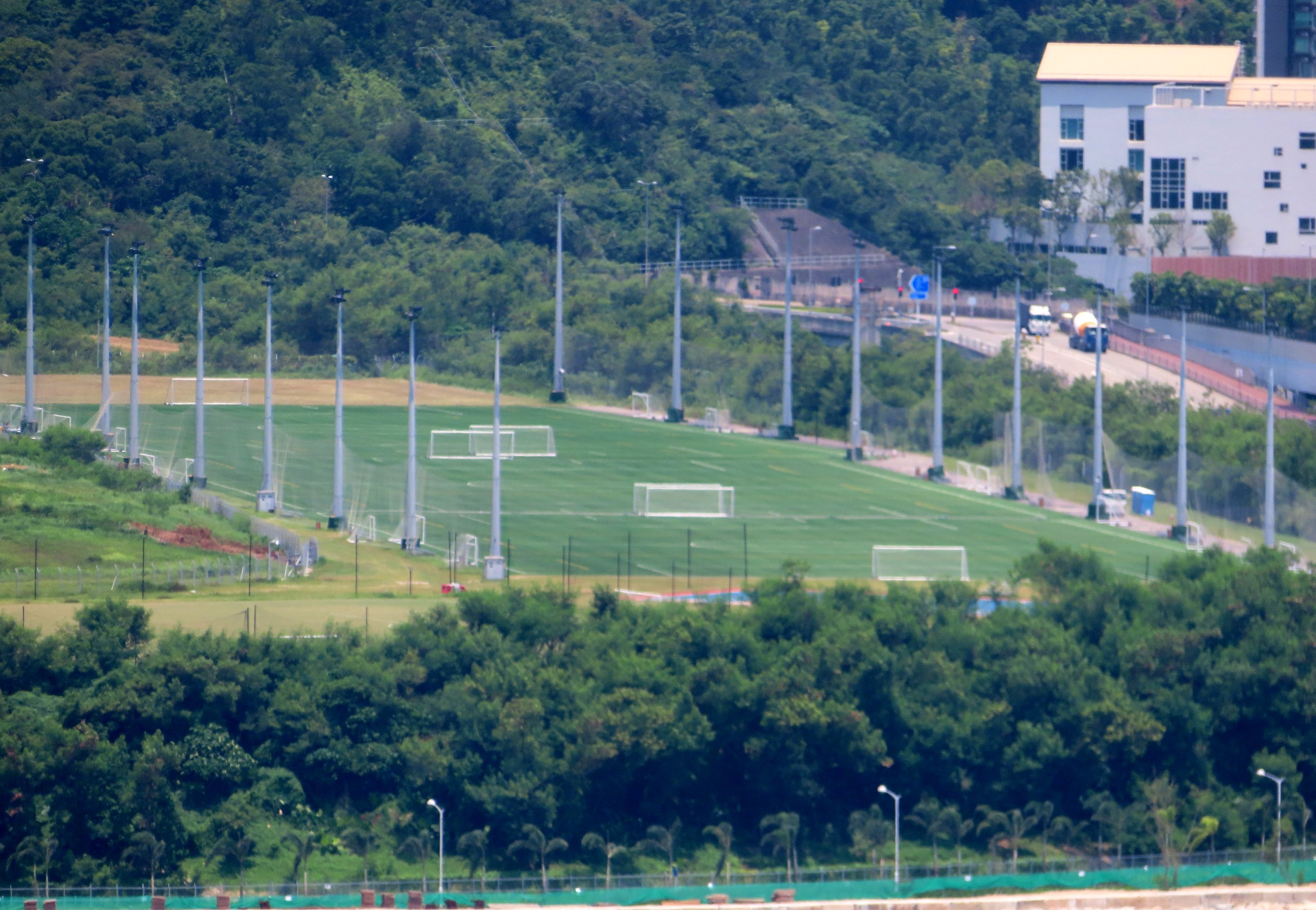 Football training centre of HKFA